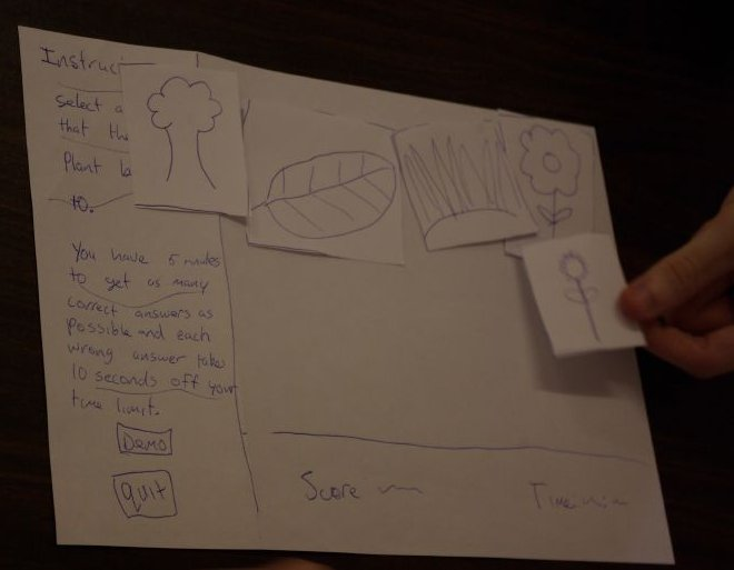 Interaction with a paper prototype